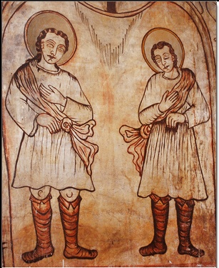 Mar Sapor und Mar Proth, mittelalterliche Wandmalerei in der Kirche von Nilackal, Kerala, Indien